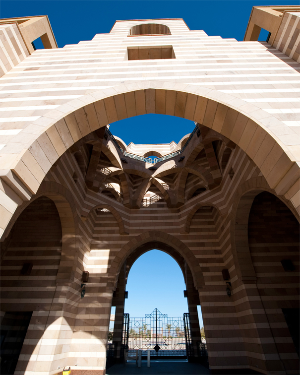 Arch, AUC-New Cairo